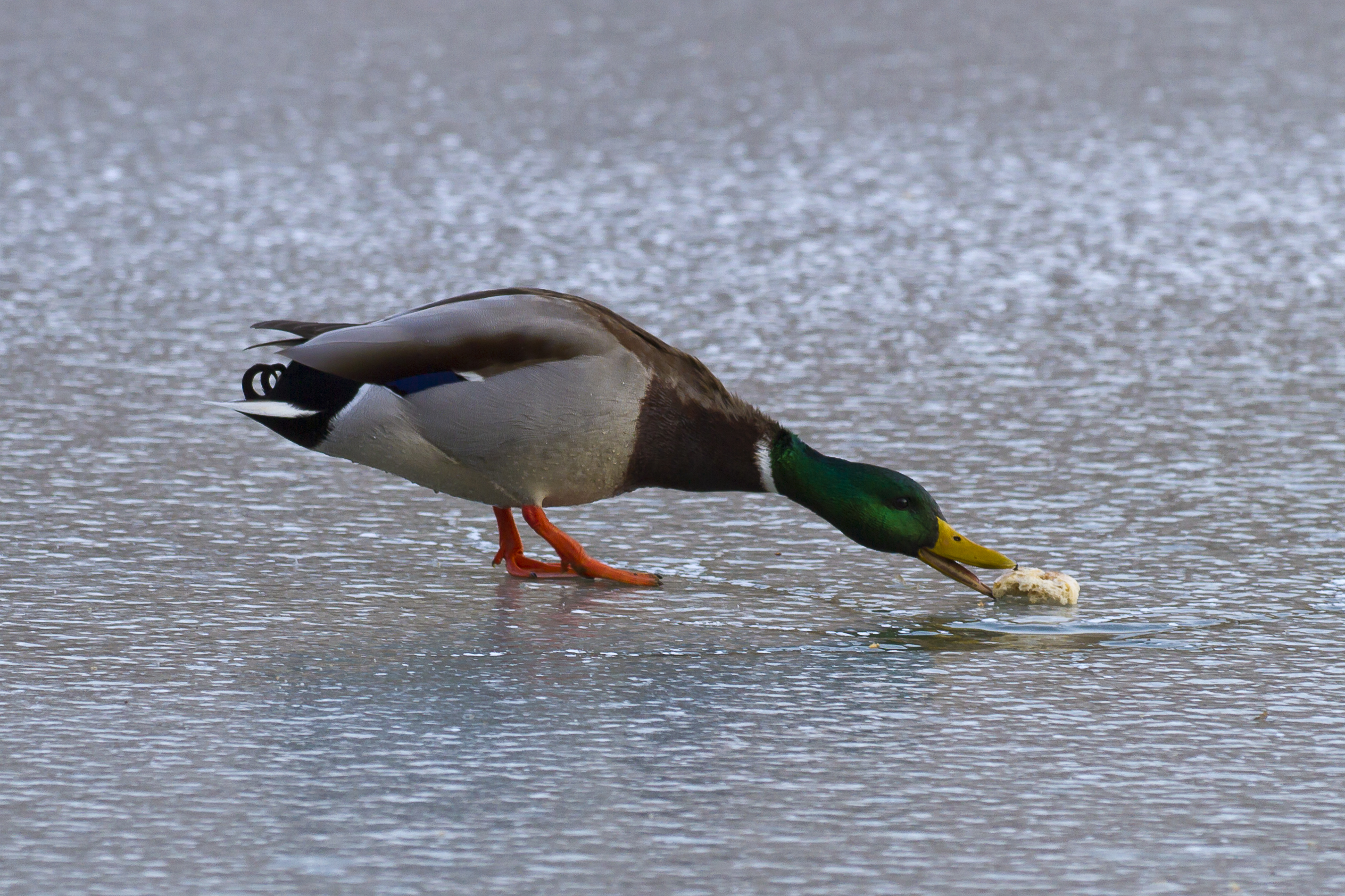 A mallard duck starving (due to the very cold weather in Toulouse) tries to eat bread on a frozen lake.